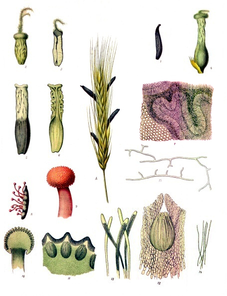 Please do not delete this file because the multilingual translations for the description seem to be too long for the template here! This is the English one. Ergot fungus. A) An ear of rye with sclerotia natural size, 1 Mature sclerotium, of the same, 2 Ovaries with the mushroom mycelium covered enlarged; 3 Of the same in longitudinal section, ditto, 4 Ovary with the beginning of the formation of the sclerotiums, ditto, 5 The same character in another stage of development, ditto, 6 The latter figure, in longitudinal section, ditto, 7 Mycelium with conidia carriers and conidia, ditto, 8 Sclerotium with the fruit bodies, ditto; increased 9 Fruit carrier more, 10 Is the same in longitudinal section with the perithecia, ditto, 11 Cut from the perithecia layer even more enlarged, magnified 12 Single perithecium even more, 13 Spore tube, same as above (must be the same at the top end slightly tapered be) 14 Tube spores, ditto, 15 Germinating spores tube.